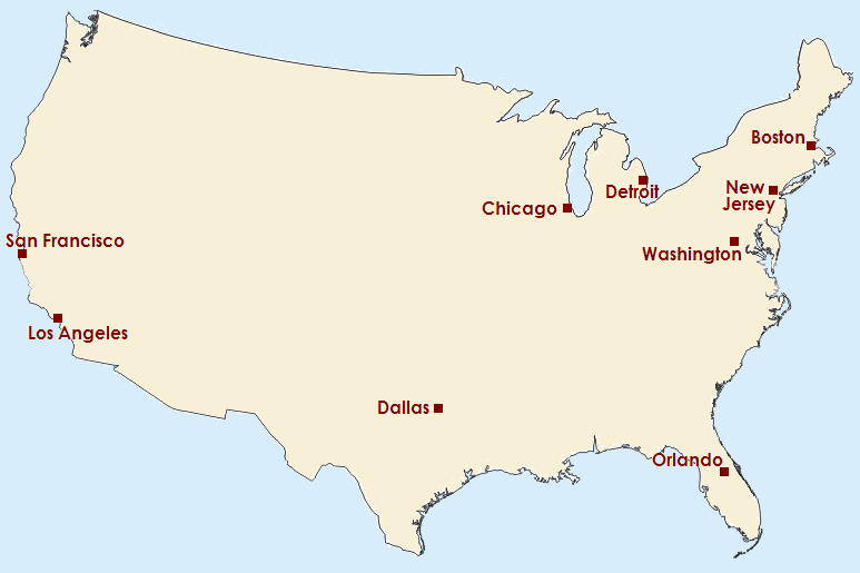 A map depicting the locations of venues at the 1994 FIFA World Cup (I created this file)